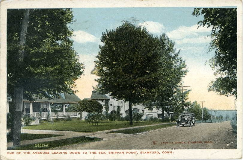 Postcard picture of a residential street in the Shippan Point neighborhood of Stamford, Connecticut. Store Web page states the publisher was "Danziger & Berman" and the card is divided-back style